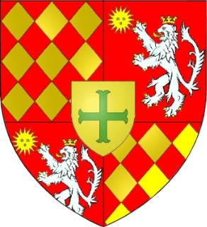 blazon of De Bären family